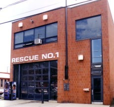 Scranton Fire Department's Fire Station for Rescue Co. 1